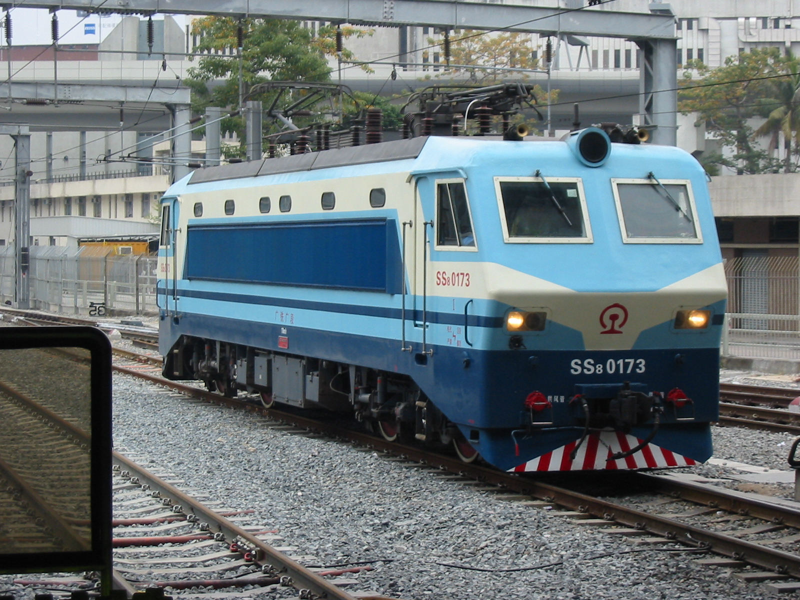 Electric loco SS8-0173 at Hunghom Station